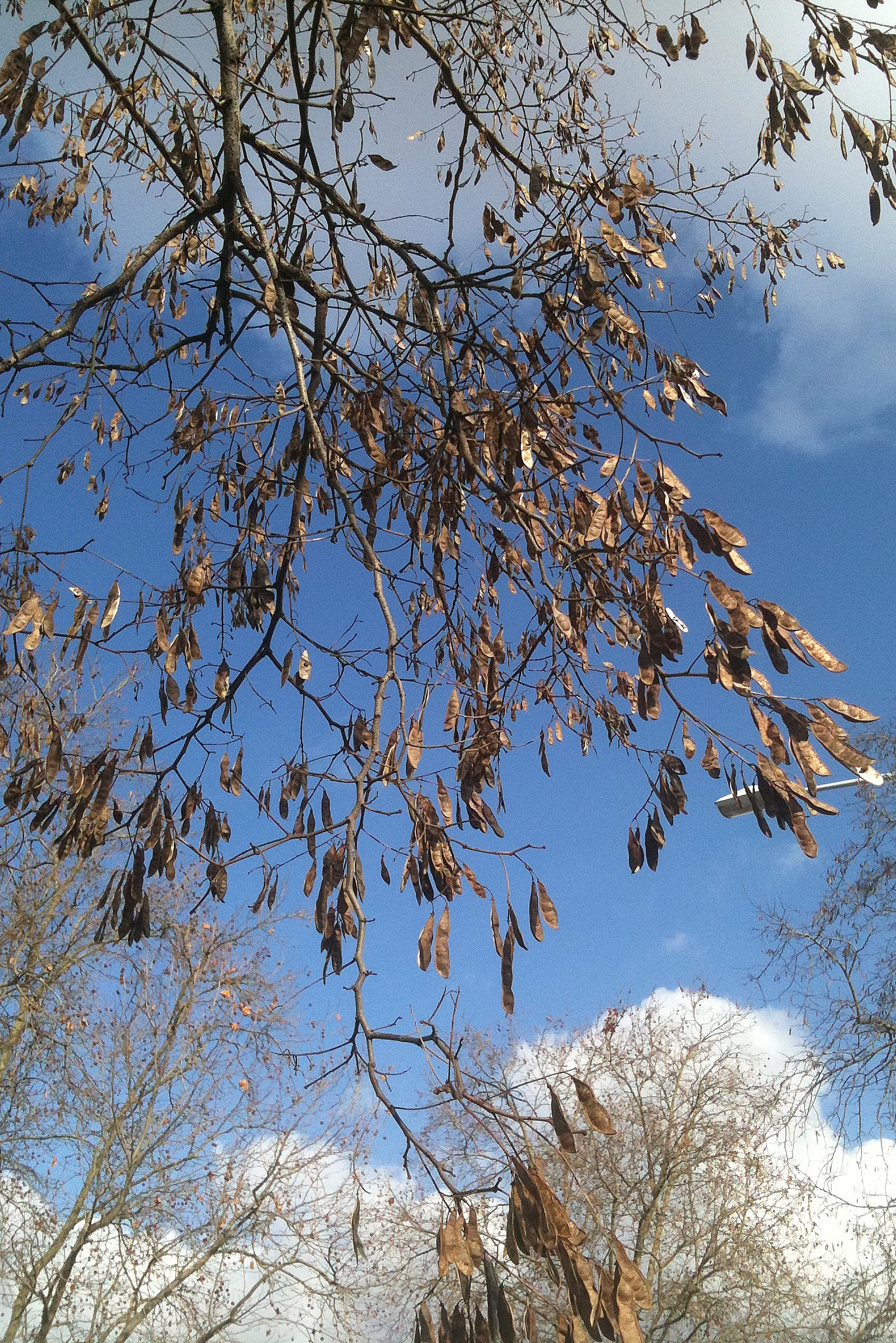 Dry robinia pods still on tree by mid winter